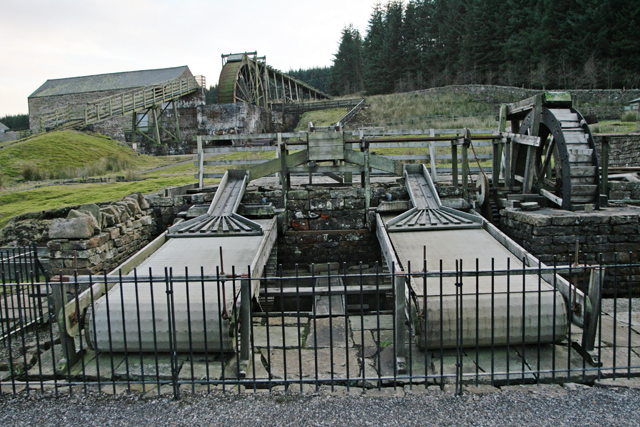 Brunton buddles (invented by William Brunton Jr. (1817-1881)). A pair of Brunton buddles for separating lead ore from its matrix. The body of the machine is a canvas belt which runs uphill while a mixture of finely crushed ore and rock is fed onto the belt in a stream of water from the top. The lighter rock is washed down the belt while the heavier particles of lead are carried up the belt and over the top to then be washed off the bottom of the belt into a collecting pit beneath.